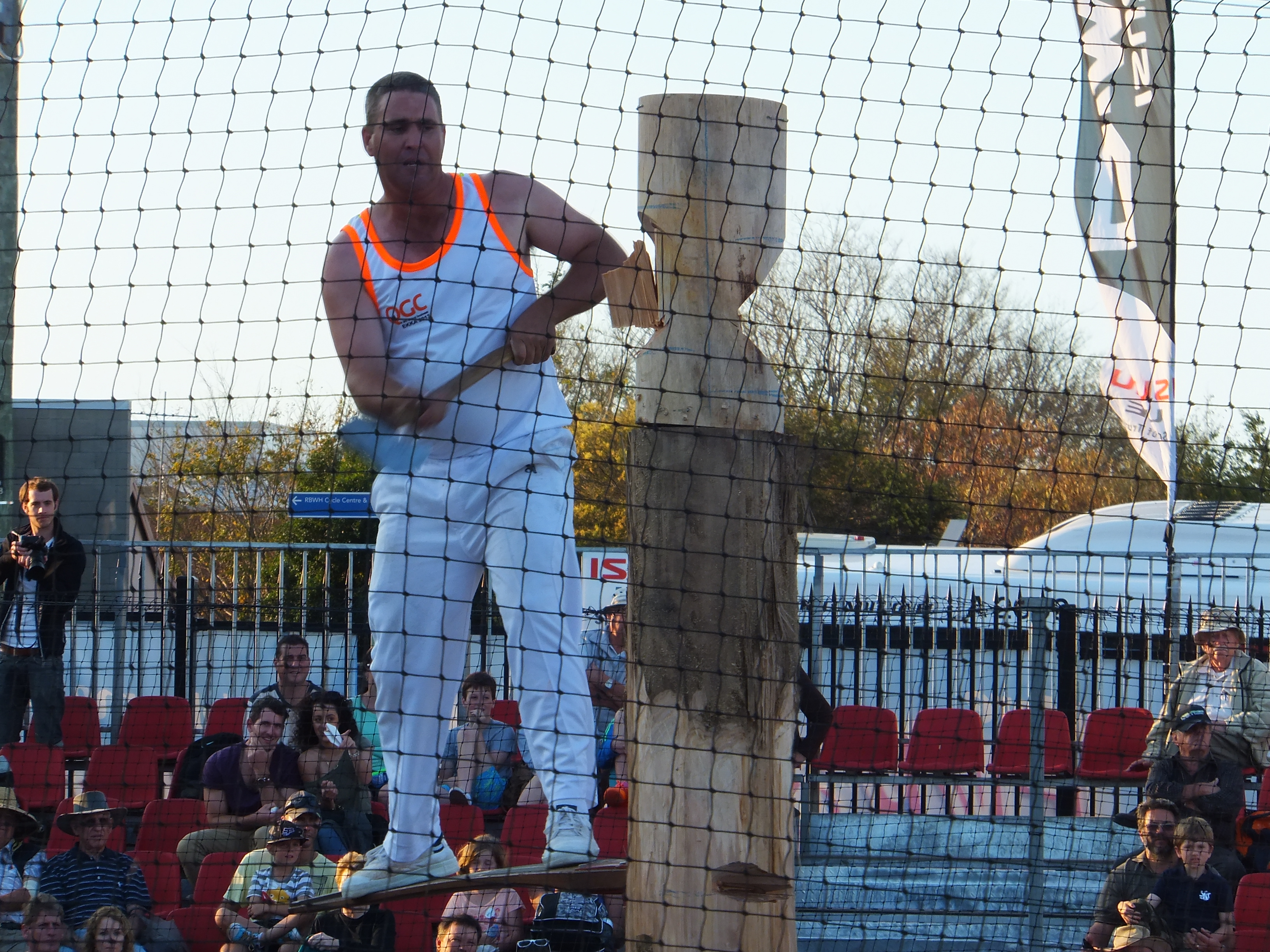 Woodchopping at 2013 Ekka / Royal Queensland Show